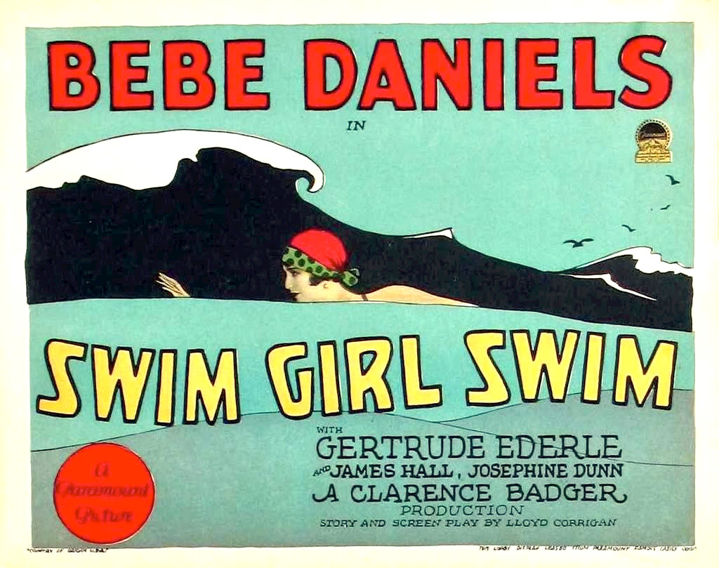 Lobby card for the American romantic comedy film Swim Girl, Swim (1927). There are no copyright marks on the item. At lower left is Country of origin USA. At lower right is This lobby display leased from Paramount Famous Players Lasky Corp.